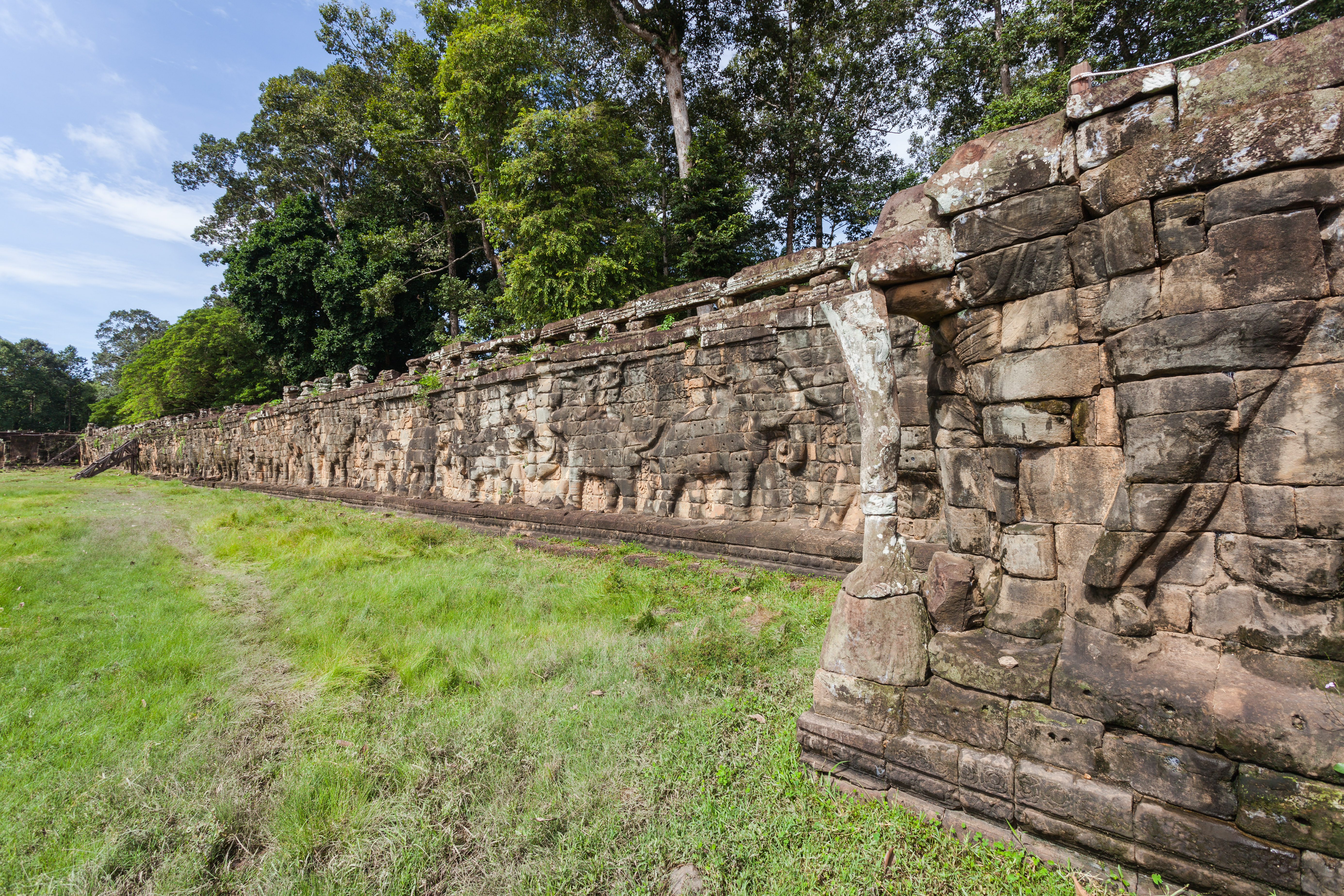 Terrace of the Elephants, Angkor Thom, Cambodia